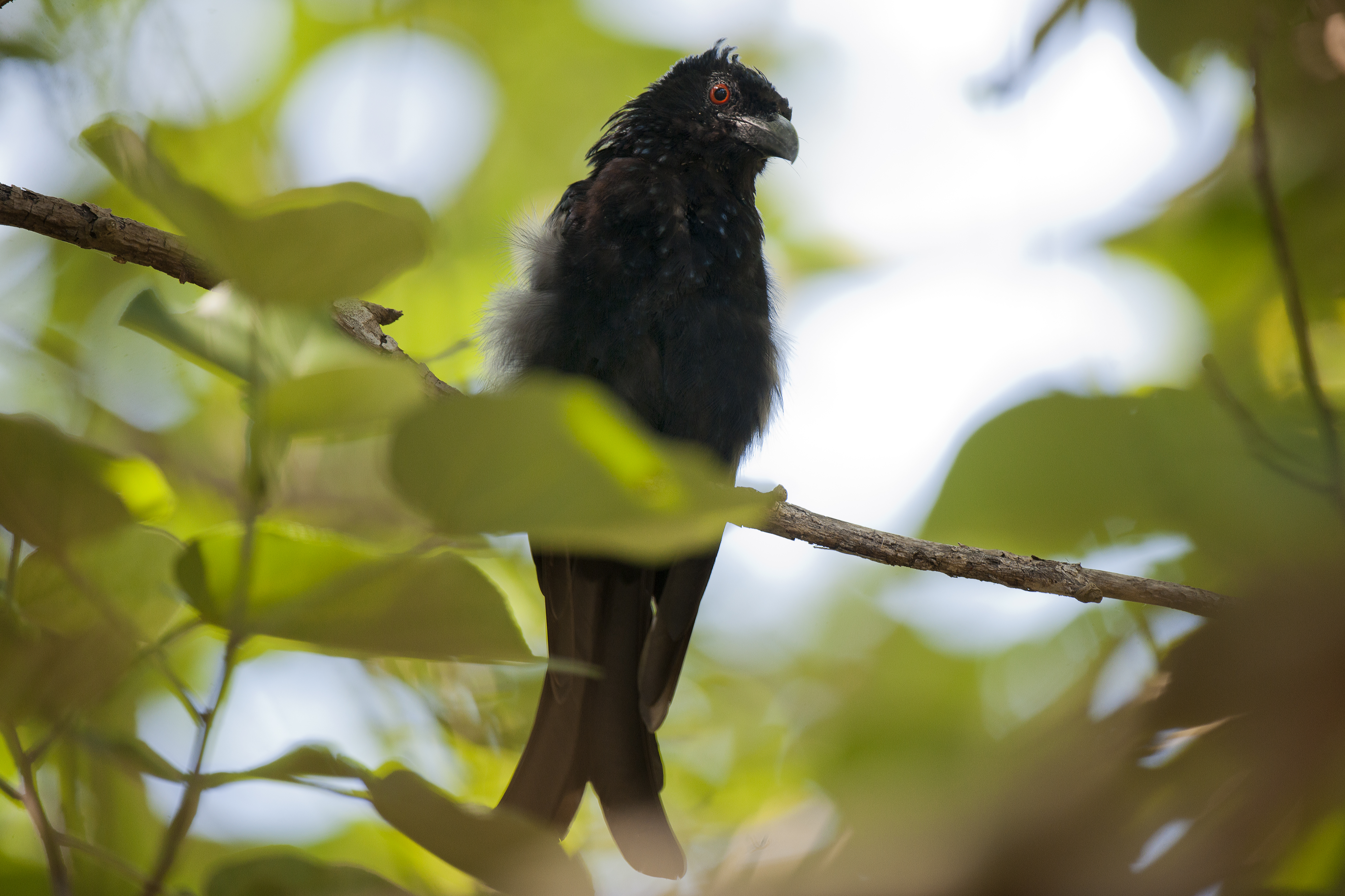 Anstead Bushland Reserve